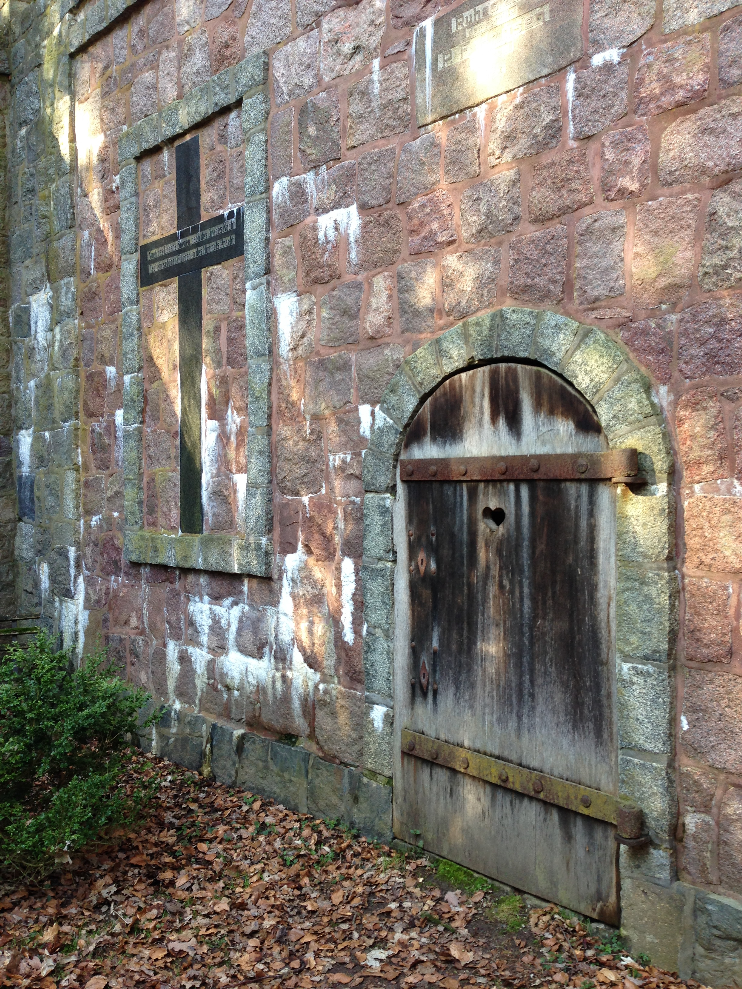 Hansen mausoleum on the forest cemetery in Kritzow (Langen Brütz), district Ludwigslust-Parchim, Mecklenburg-Vorpommern, Germany